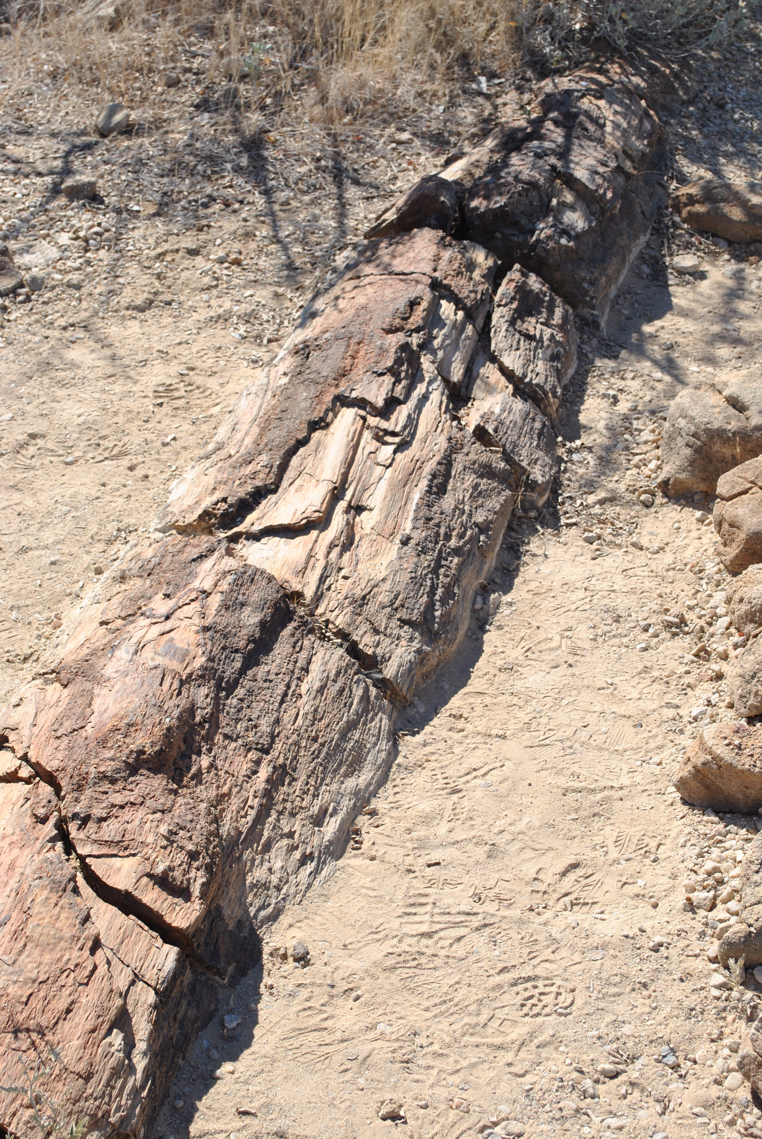 The Petrified Forest